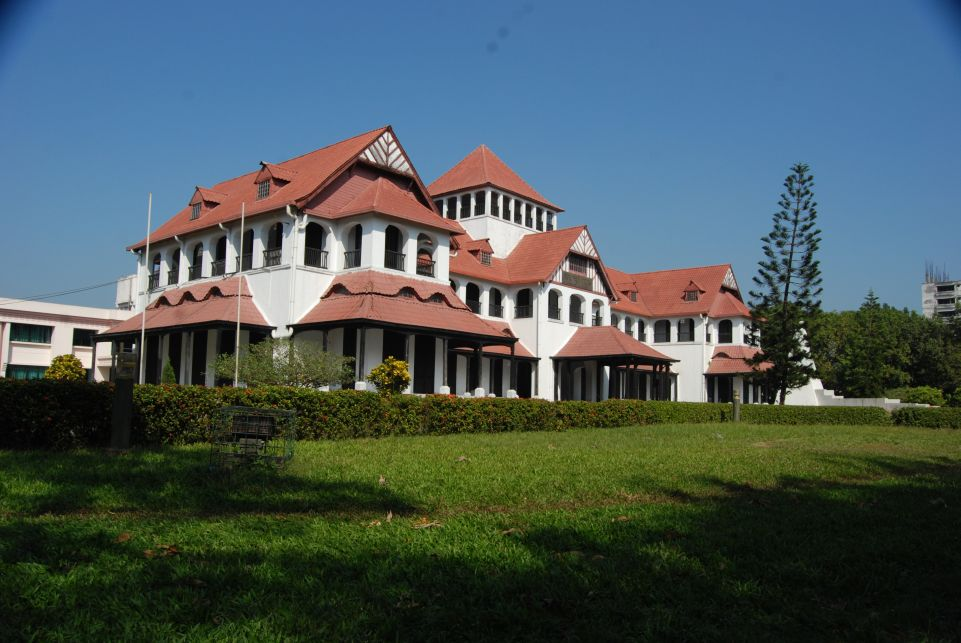 Circuit House, Zia Museum, Lalkhan Bazar, Chittagong, Bangladesh.